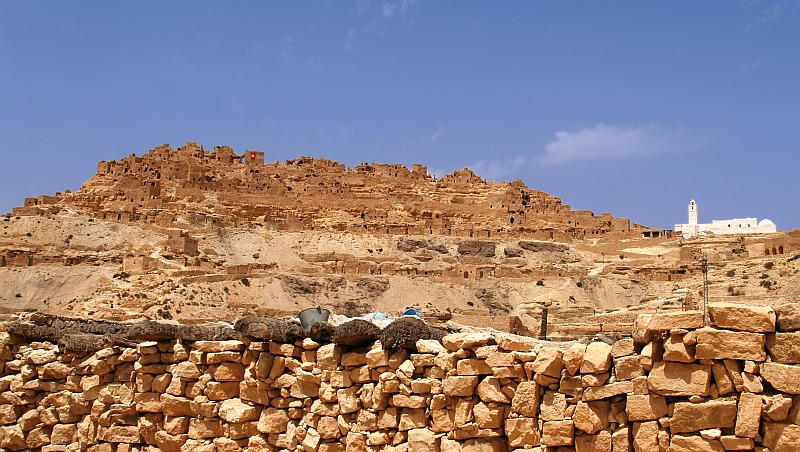 View of Chenini